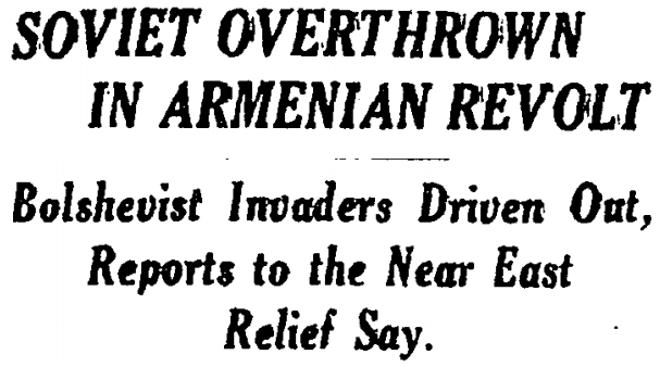 March 17, 1921, SOVIET OVERTHROWN IN ARMENIAN REVOLT; Bolshevist Invaders Driven Out, Reports to the Near East Relief Say.